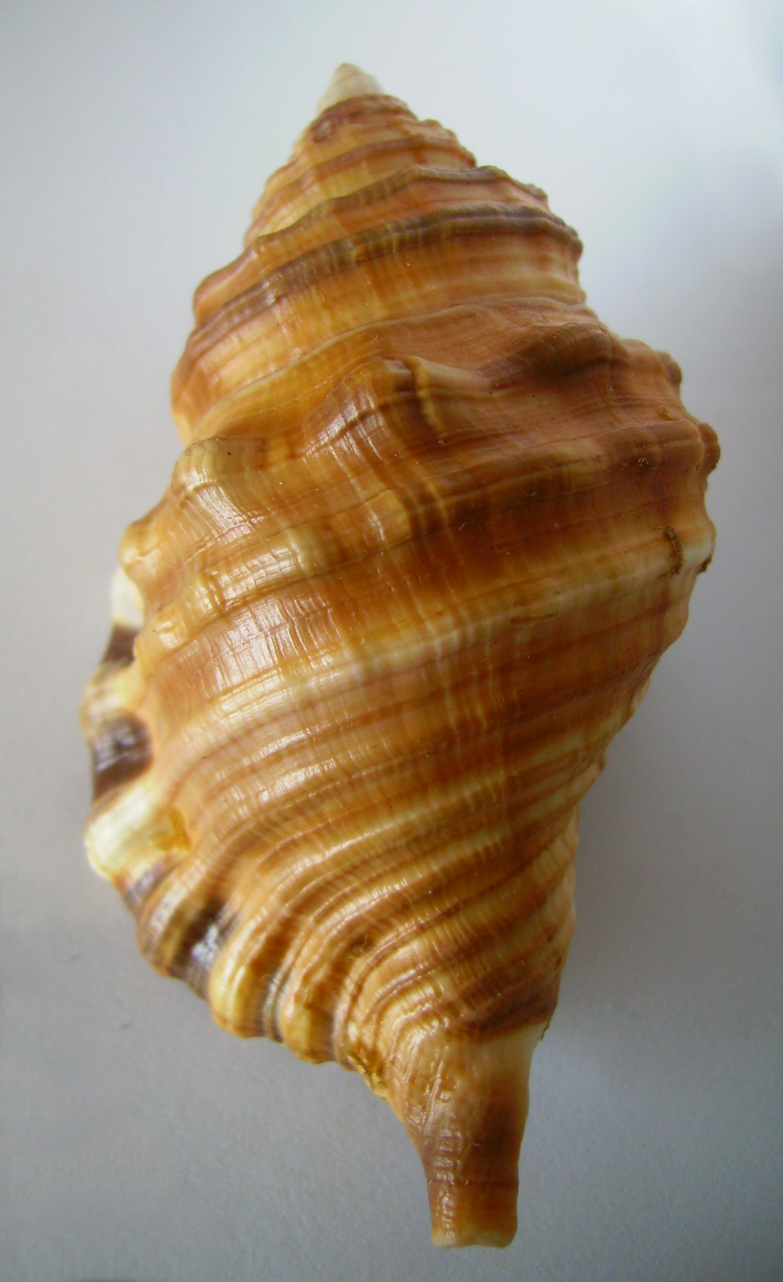 Monoplex parthenopeus (Salis Marschlins, 1793) (synonym : Cymatium parthenopeum (Salis-Marschlins, 1793)) from New Zealand. (NOT: Cymatium parthenopeum Keen, 1958).